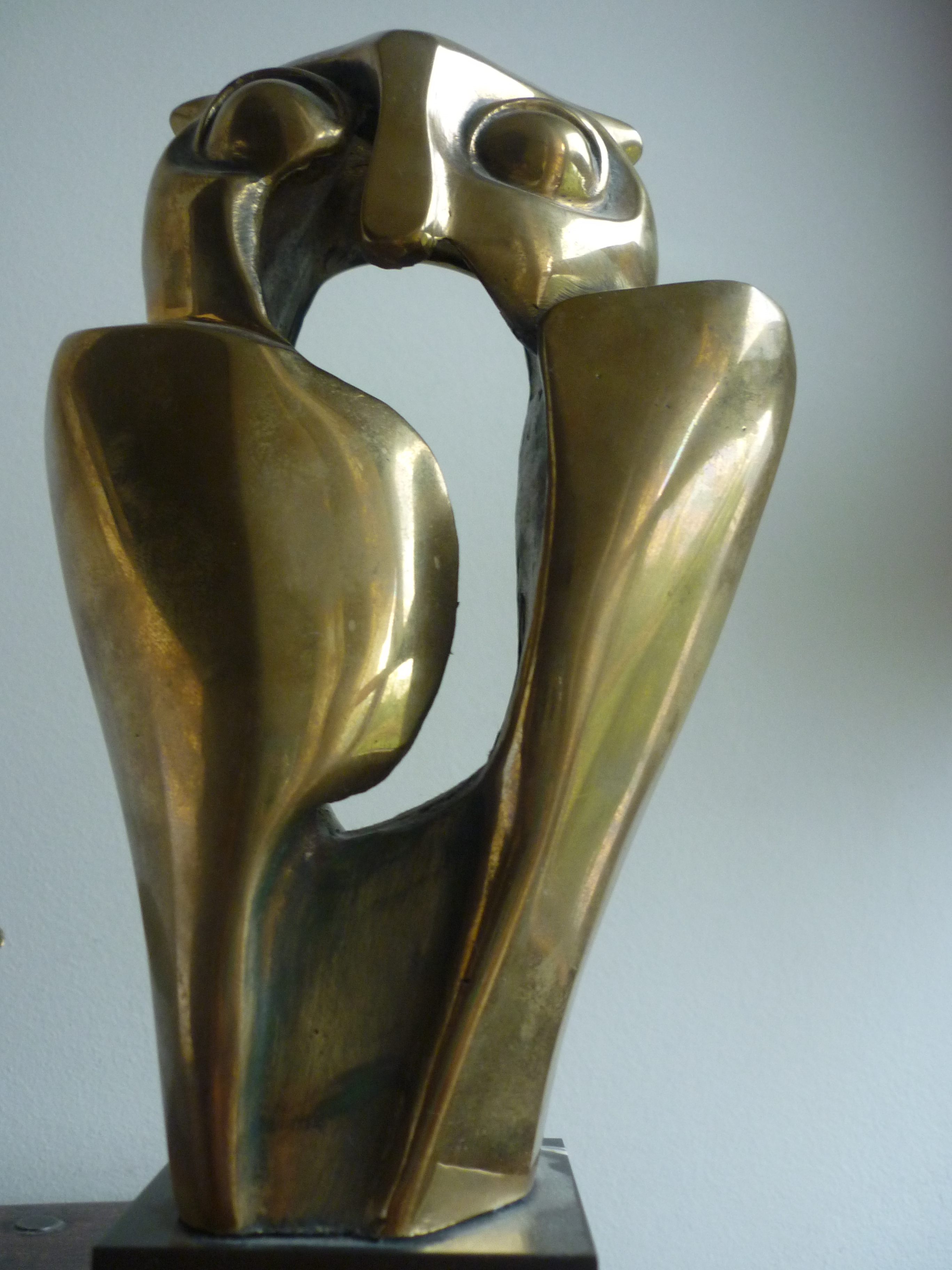 The trophy of the Danov Award by Diana Raynova, granddaughter of Nikolay Raynov and daughter of sculptor Bojan Raynov